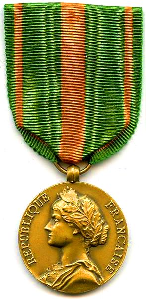 Escapee's Medal (France) (Obverse)